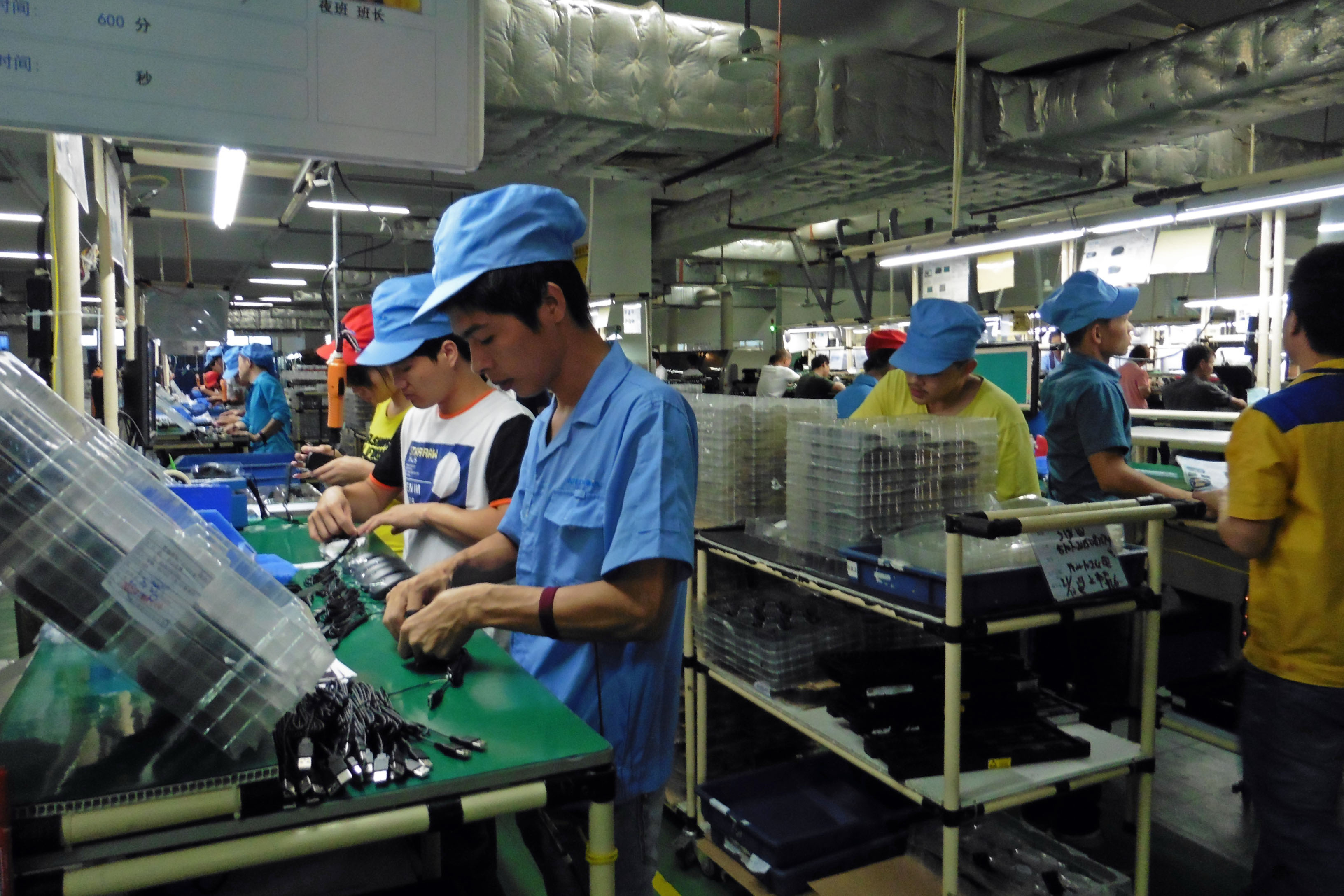 G.Tech Technology Factory in Zhuhai China